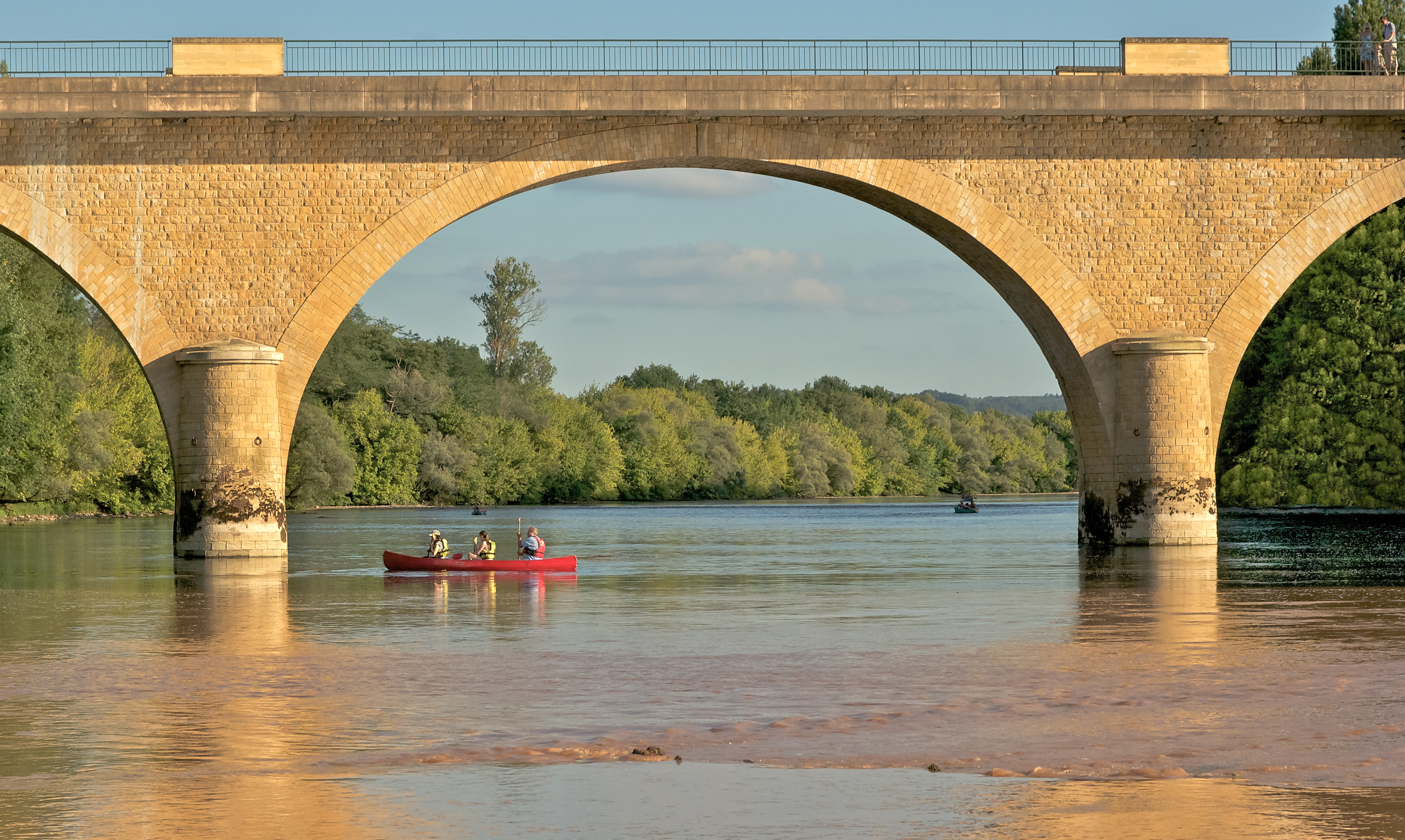 canoeing on Dordogne river, in Limeuil, Dordogne department, France.